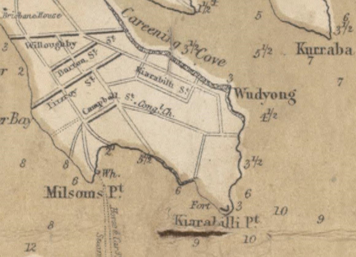 Map of Port Jackson and city of Sydney